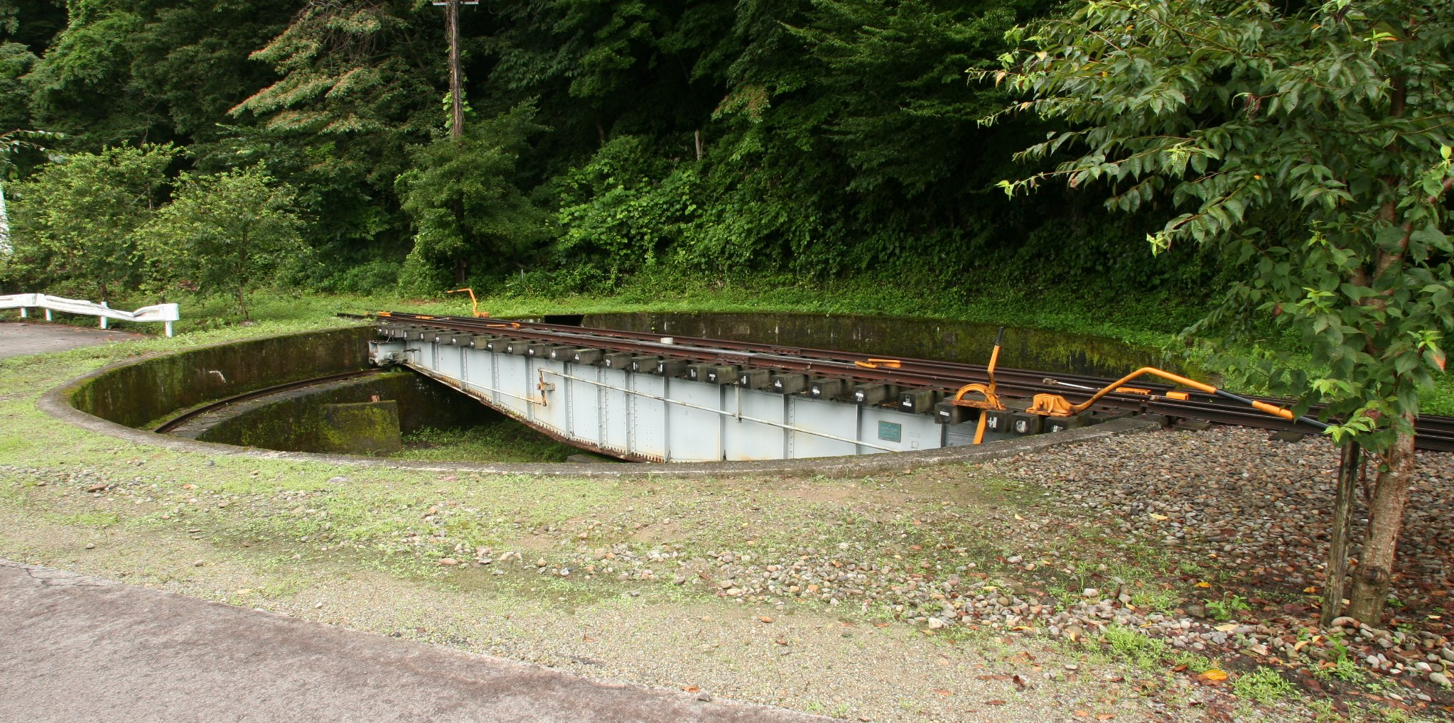 Turn table at Hokuno station,Nagaragawa Ry,Japan.Manufactured by American Bridge Co.,in 1902.At first used in Gifu station,later tansfered to hire about 1934.